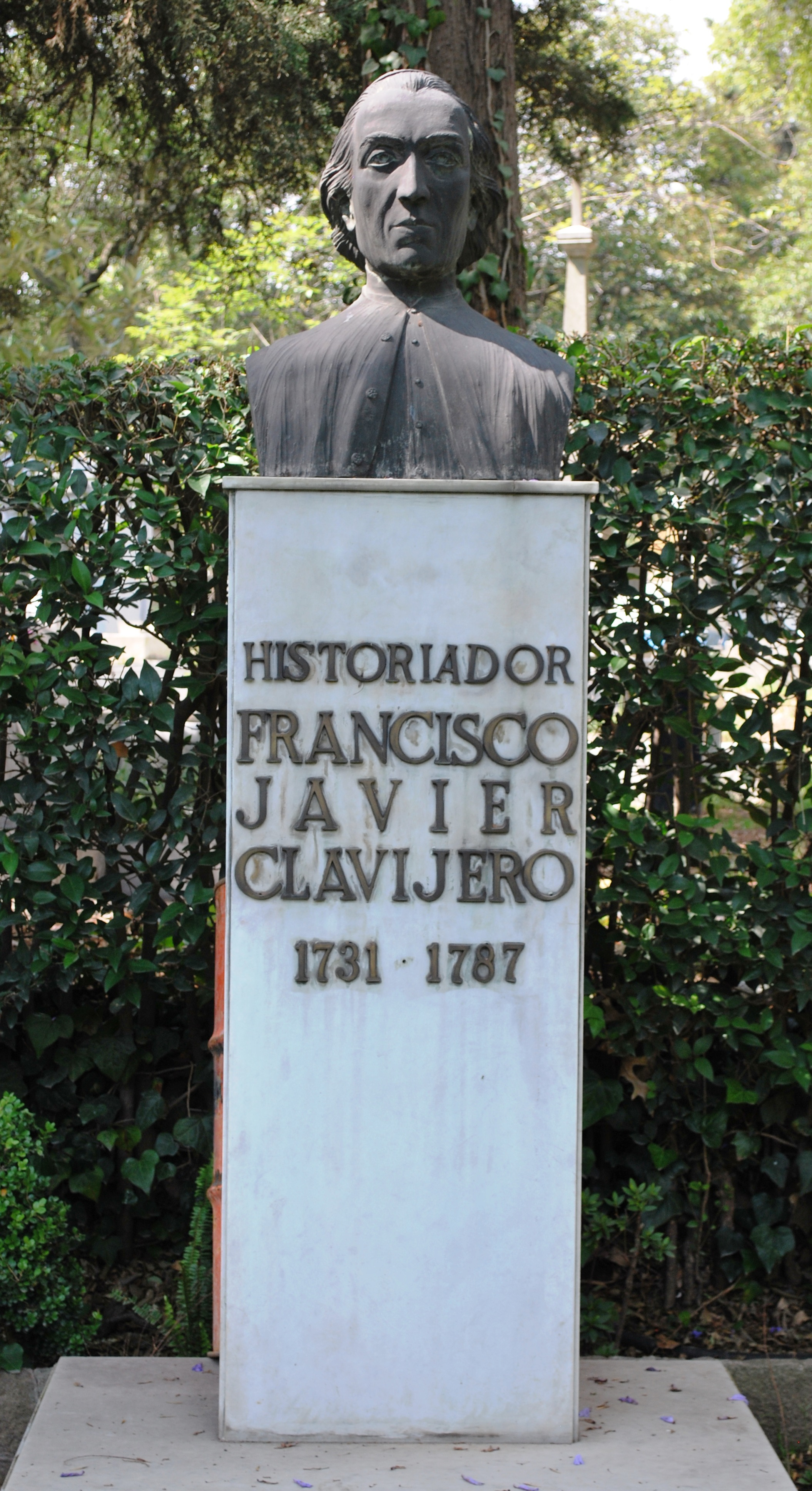 Tomb of Francisco Javier Clavijero in Panteon Civil de Dolores cemetery in Mexico City